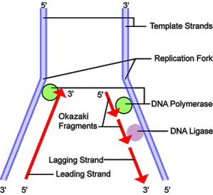 This image is from the Science Primer, a work of the National Center for Biotechnology Information, part of the National Institutes of Health. As a work of the U.S. federal government, the image is in the public domain.